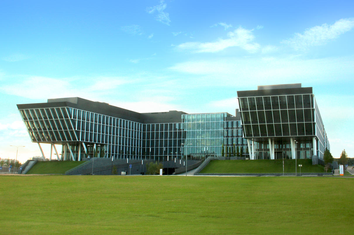 Business center ComCity in Moscow.